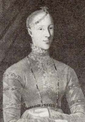 Catherine of East Frisia (1539-1610), daughter of King Gustav I of Sweden